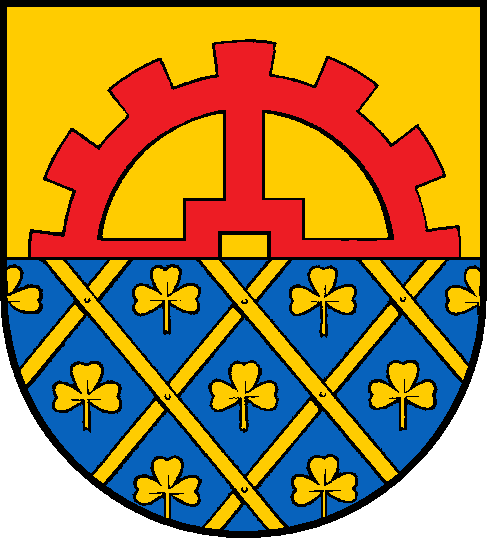 Coat of arms of Glinde Blasonierung: Geteilt von Gold und Blau. Oben ein wachsendes rotes Mühlrad, unten ein durchgehendes goldenes Schräggitter, dessen Zwischenräume mit je einem goldenen dreiblättrigen Kleeblatt gefüllt sind.